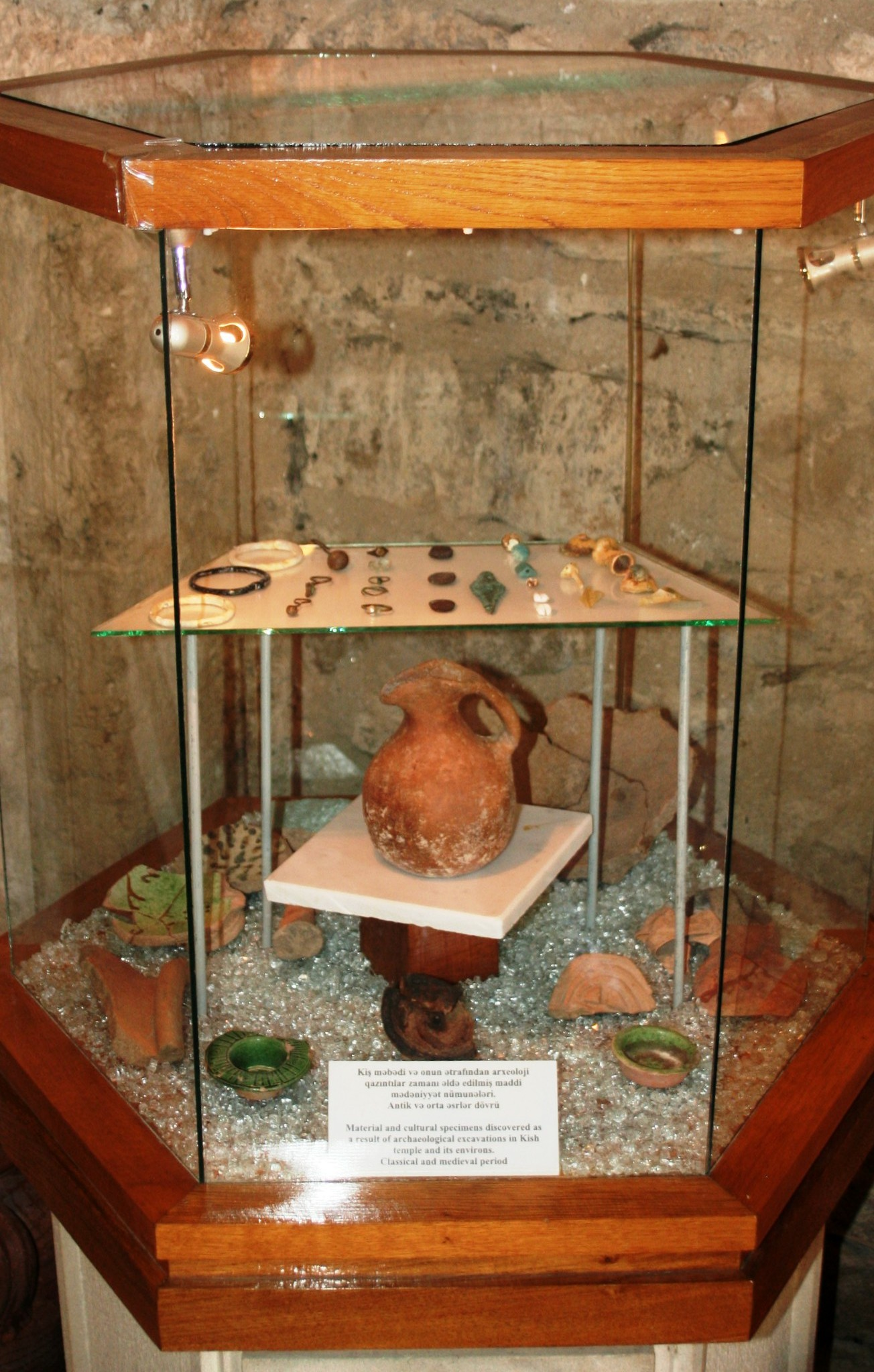 Archealogical findings from Church of Kish